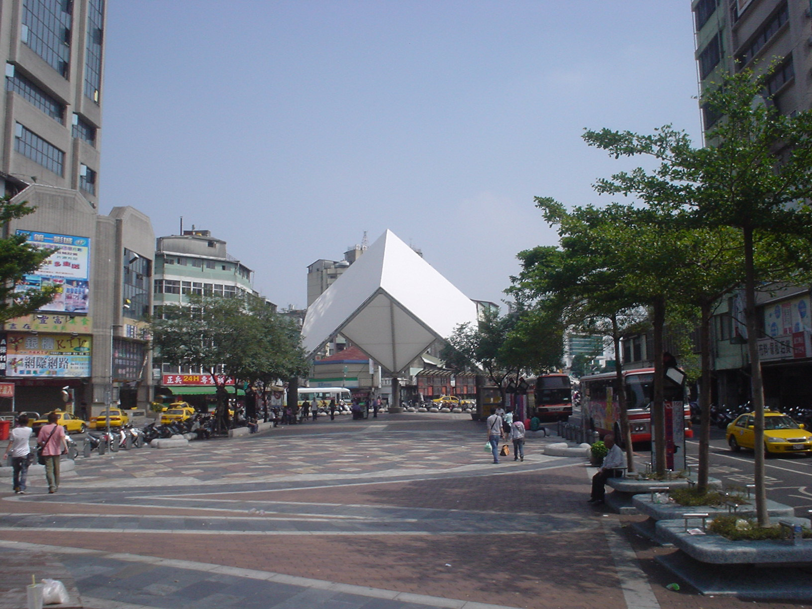 Luchuan East Station of Ren-Yeou Bus in Taichung City. Photo taken on October 10, 2006.